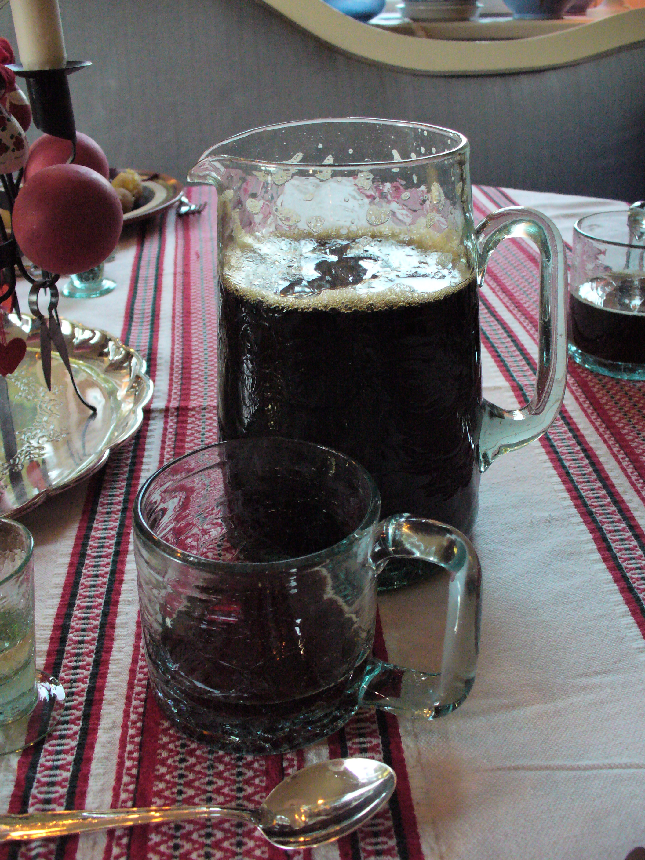 Mumma, a mixture of julmust, beer and soda